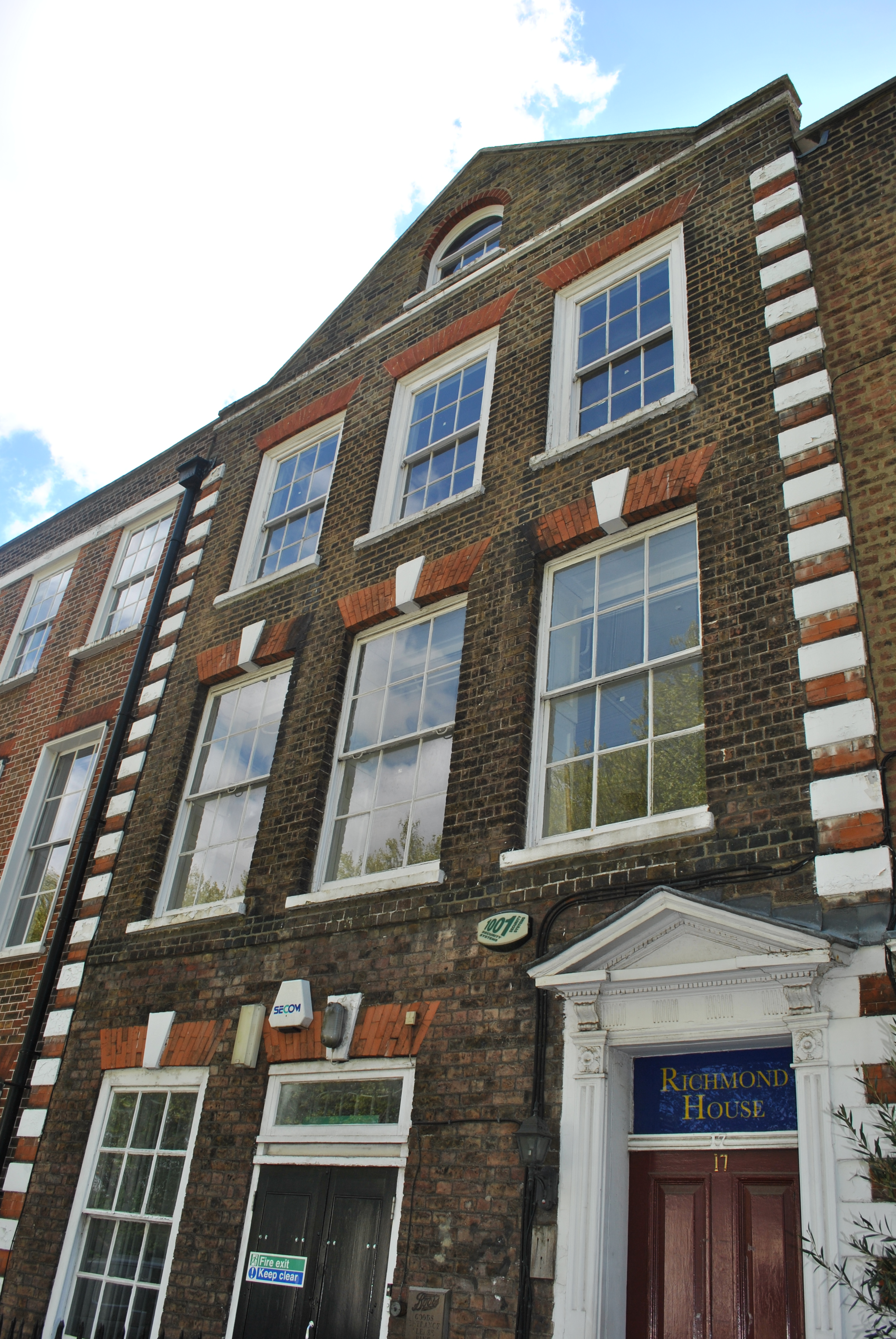 17 The Green, Richmond, Originally published in Queer Places, Vol. 2.1: Retracing the Steps of LGBTQ people around the World